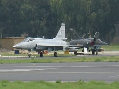 Several fighter aircraft of the Pakistan Air Force at a Pakistani airbase during flying operations. A JF-17 multi-role fighter stands near a runway. Behind it, a Dassault Mirage 5 fighter is parked with its canopies raised.